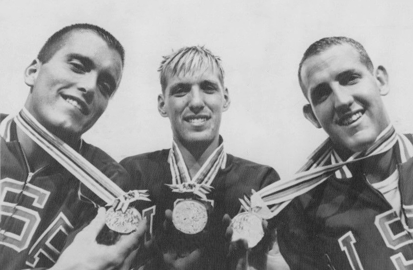 LG18 1964 Wire Photo DILLEY GRAEF BENNETT Tokyo OLYMPIC MEDALISTS US Swimmers